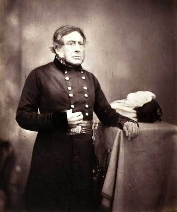 Lieutenant General Sir Hendrik Willem Johan (Henry William John) Bentinck (* 8. September 1796 in Varel; † 29. September 1878 in London), britischer General; three-quarter portrait, standing, facing right with hand in shirt.